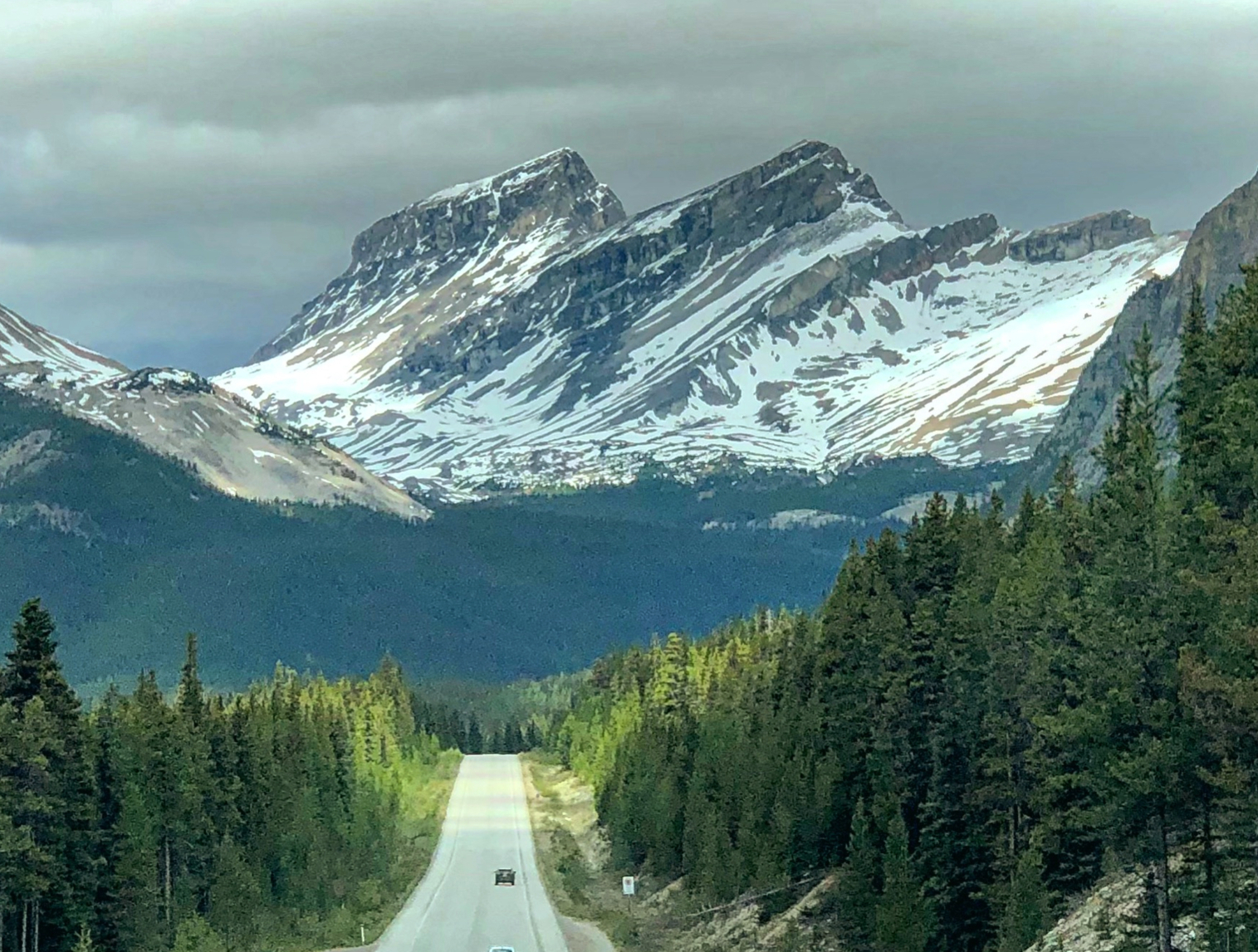 Watermelon Peak S2 (Elevation 2929m) in Banff NP seen from Icefields Parkway